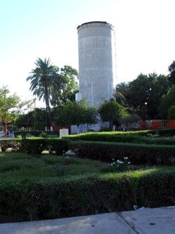 Plaza simbólica de la ciudad